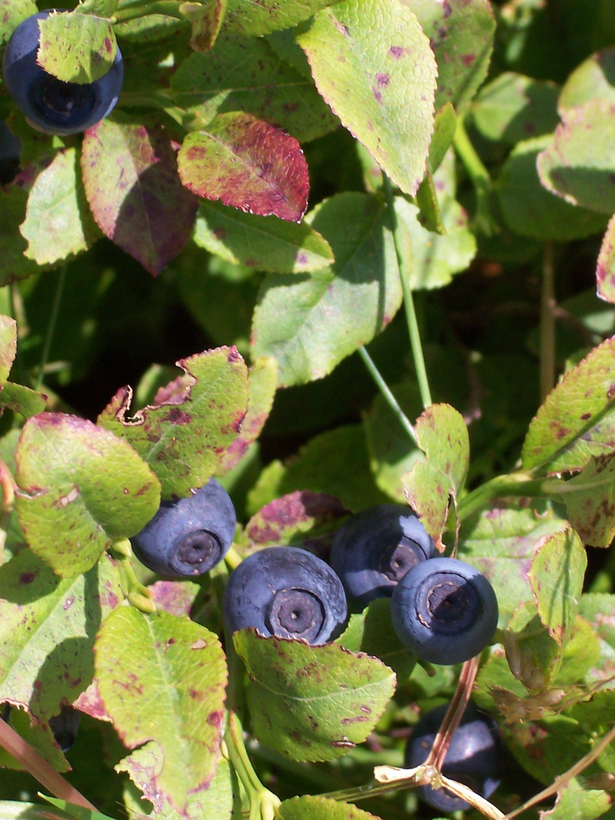 Vaccinium myrtillus (photographed in Monts du Cantal mountains at alt. 1300-1400 m)